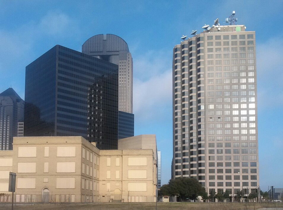 Univision building on the right in downtown Dallas